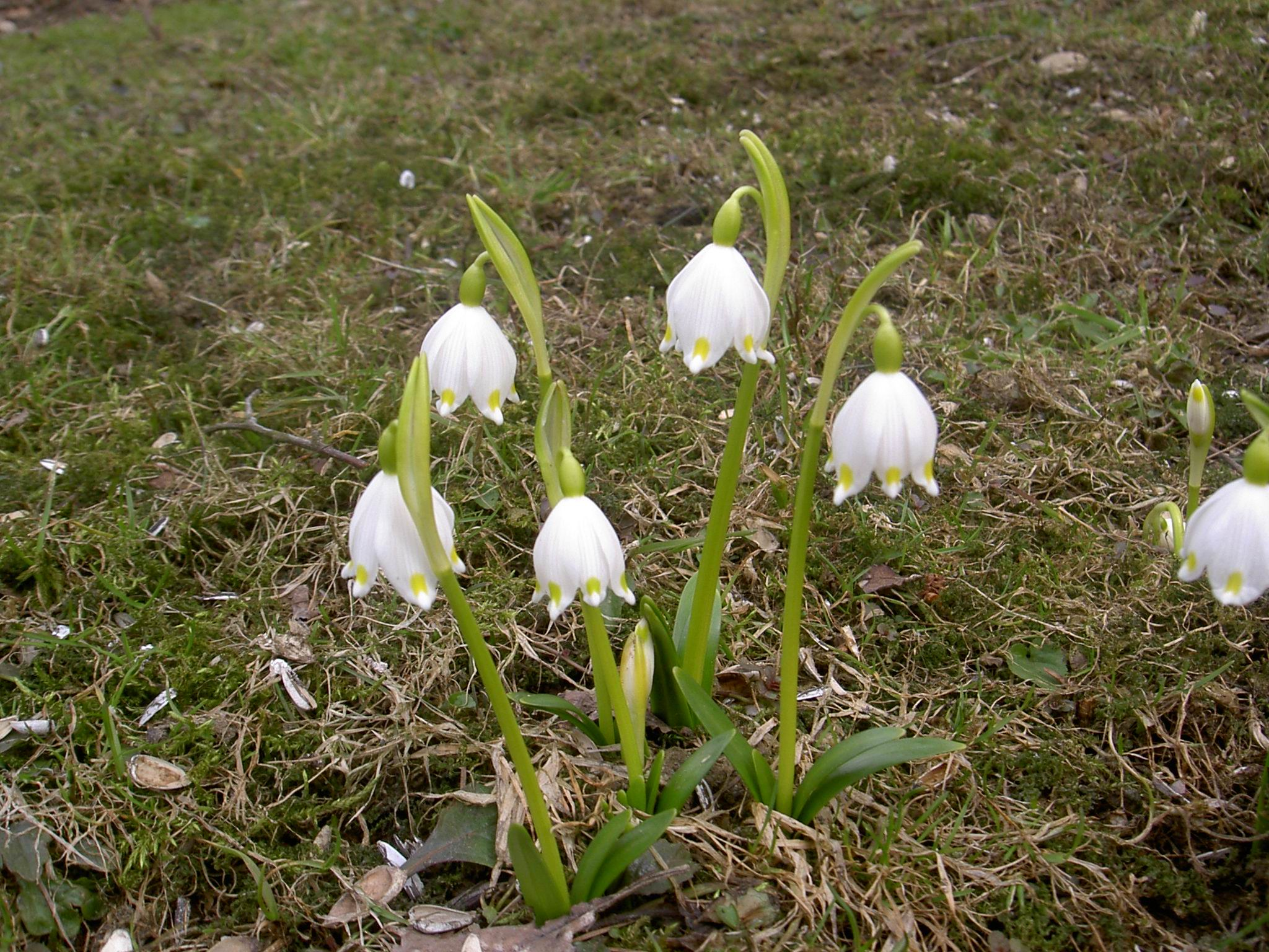 Spring Snowflake, photo taken in Styria, Austria